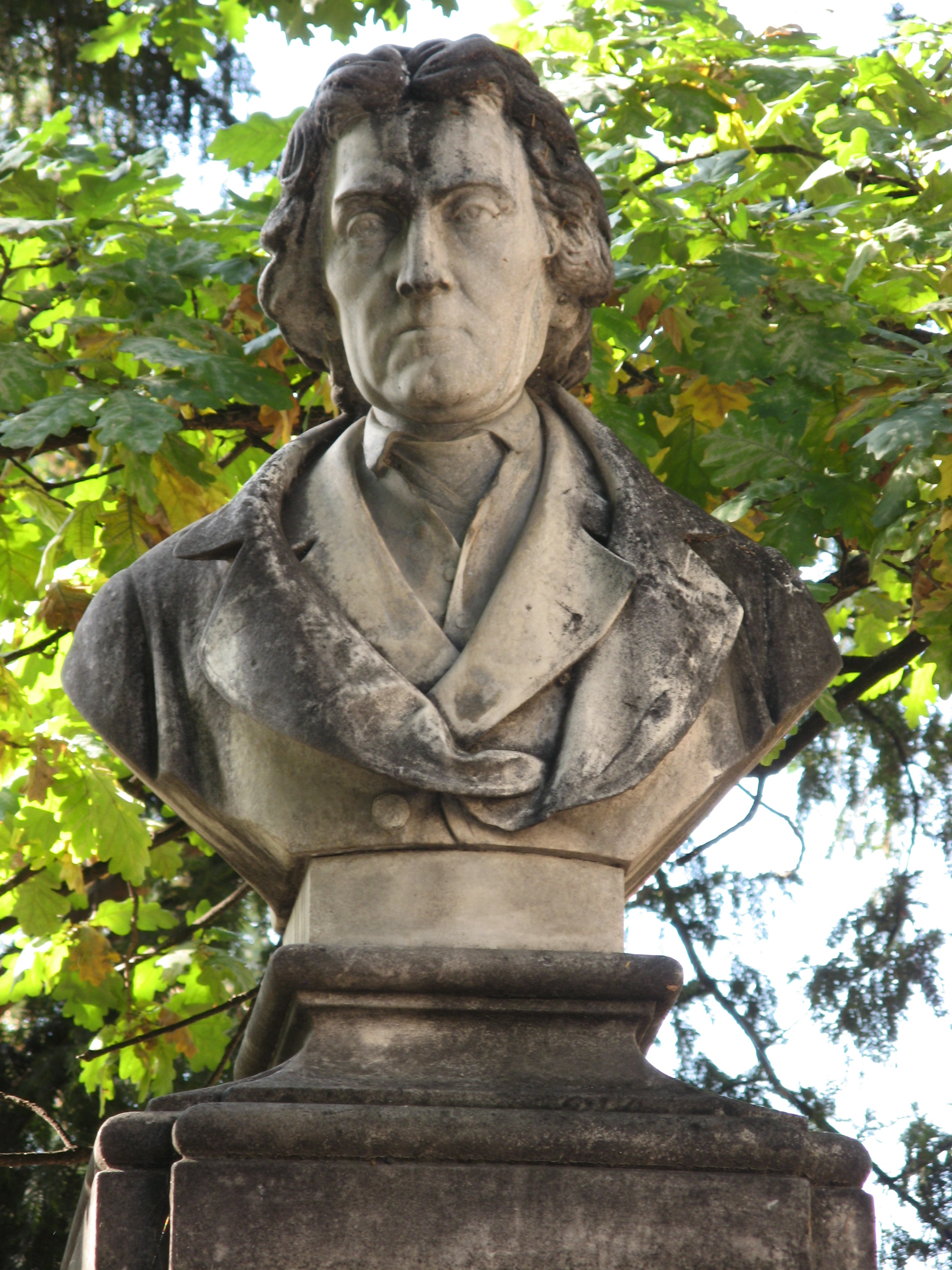 Portrait bust of Josef Dobrovský (1753-1829), Bohemian philologist and historian, Kampa Island, Prague.